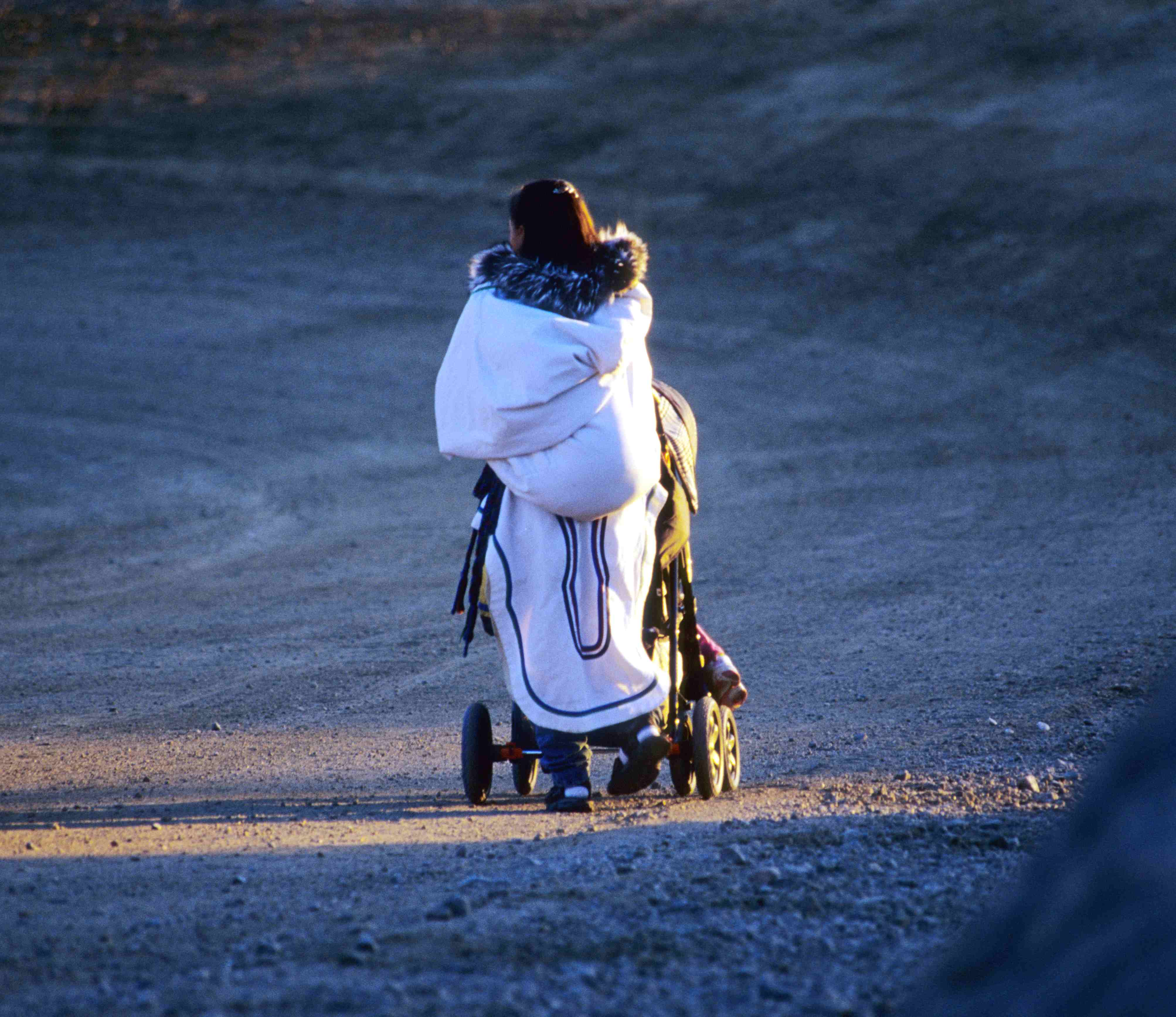 Baby carriage (Cape Dorset, Nunavut Territory, Canada)